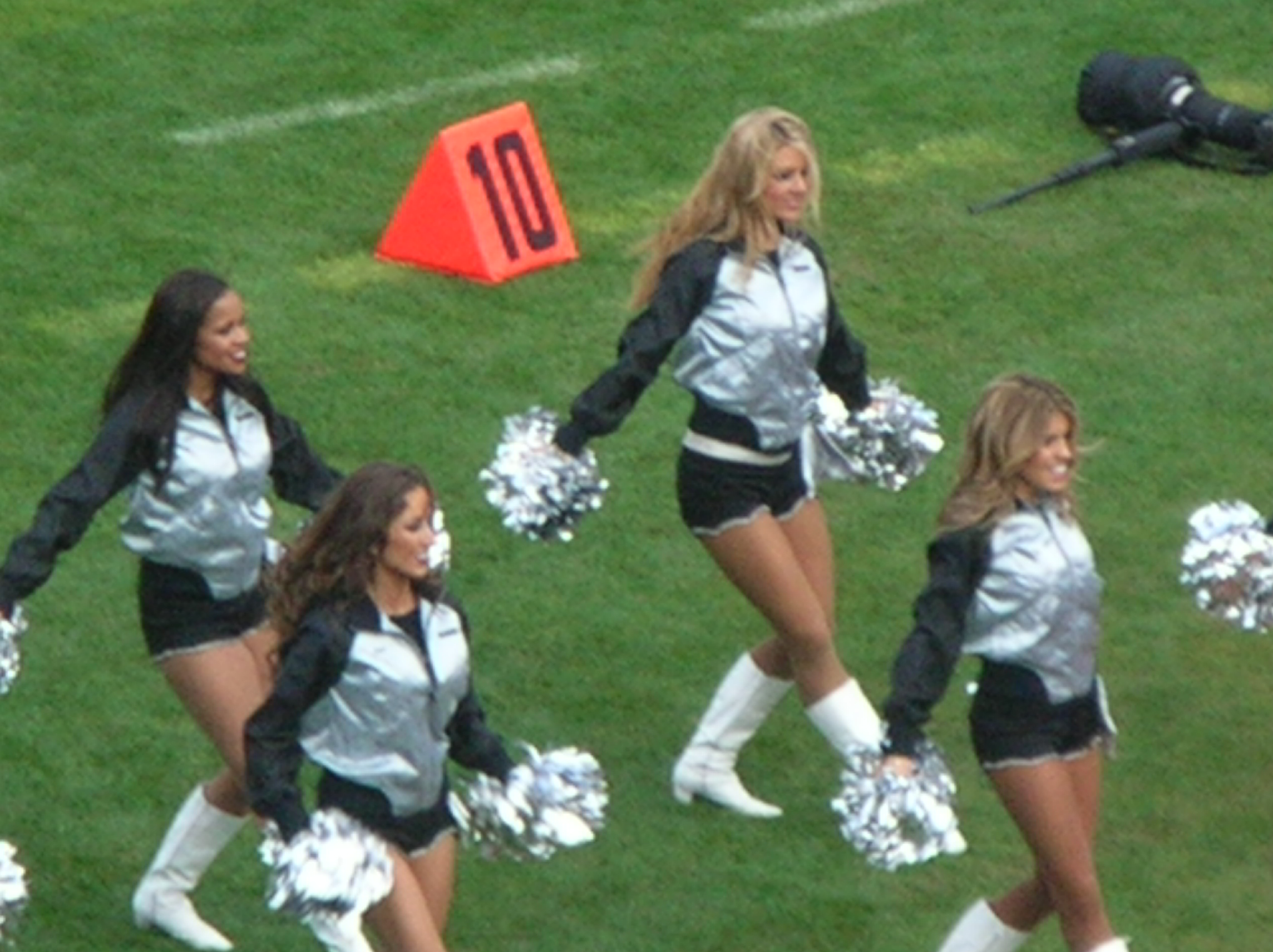 The Oakland Raiderettes at a Raiders home game against the Atlanta Falcons. The Falcons won 24-0.